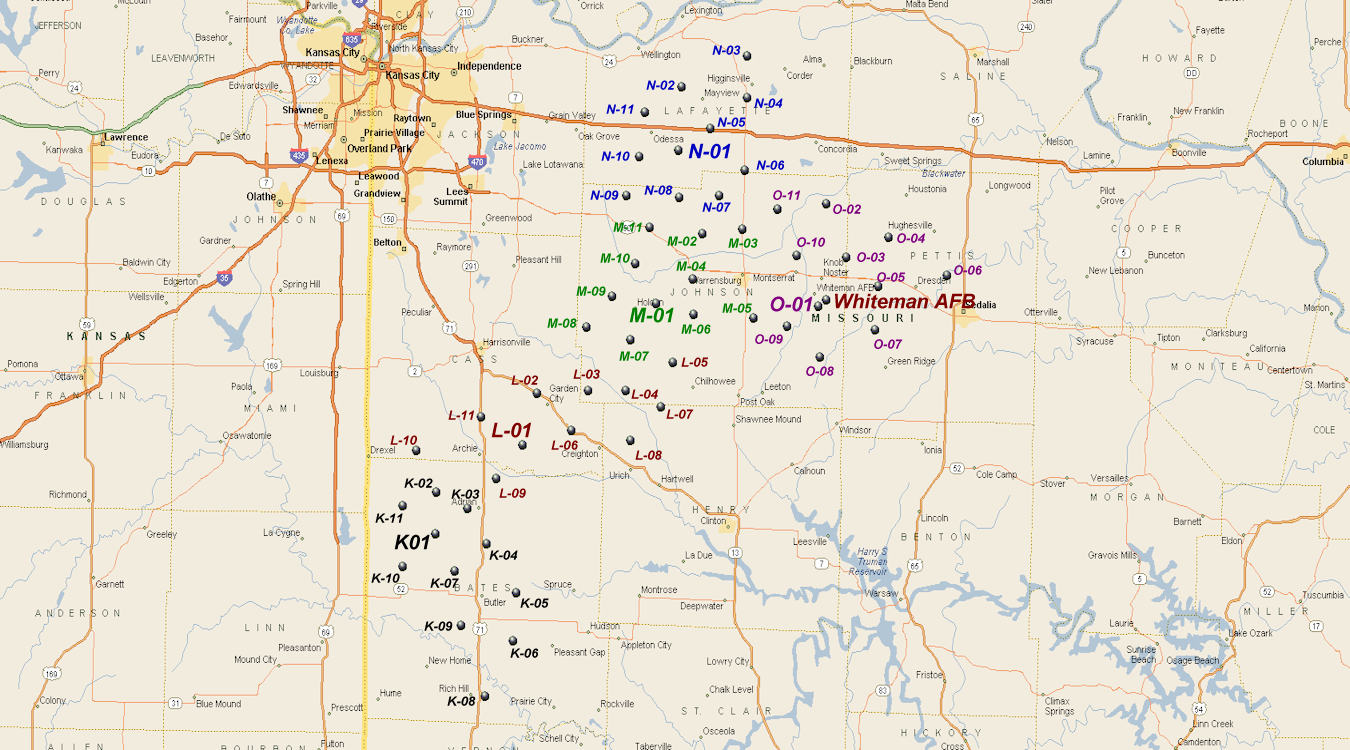 510th Missile Squadron - Missile Alert Facilities and Launch Facilities ("KILO Flight ws not part of the 510th Missile Squadron.)